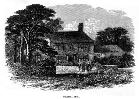 Wildfell Hall mansion as presented in the engraving by Edmund Morison Wimperis.